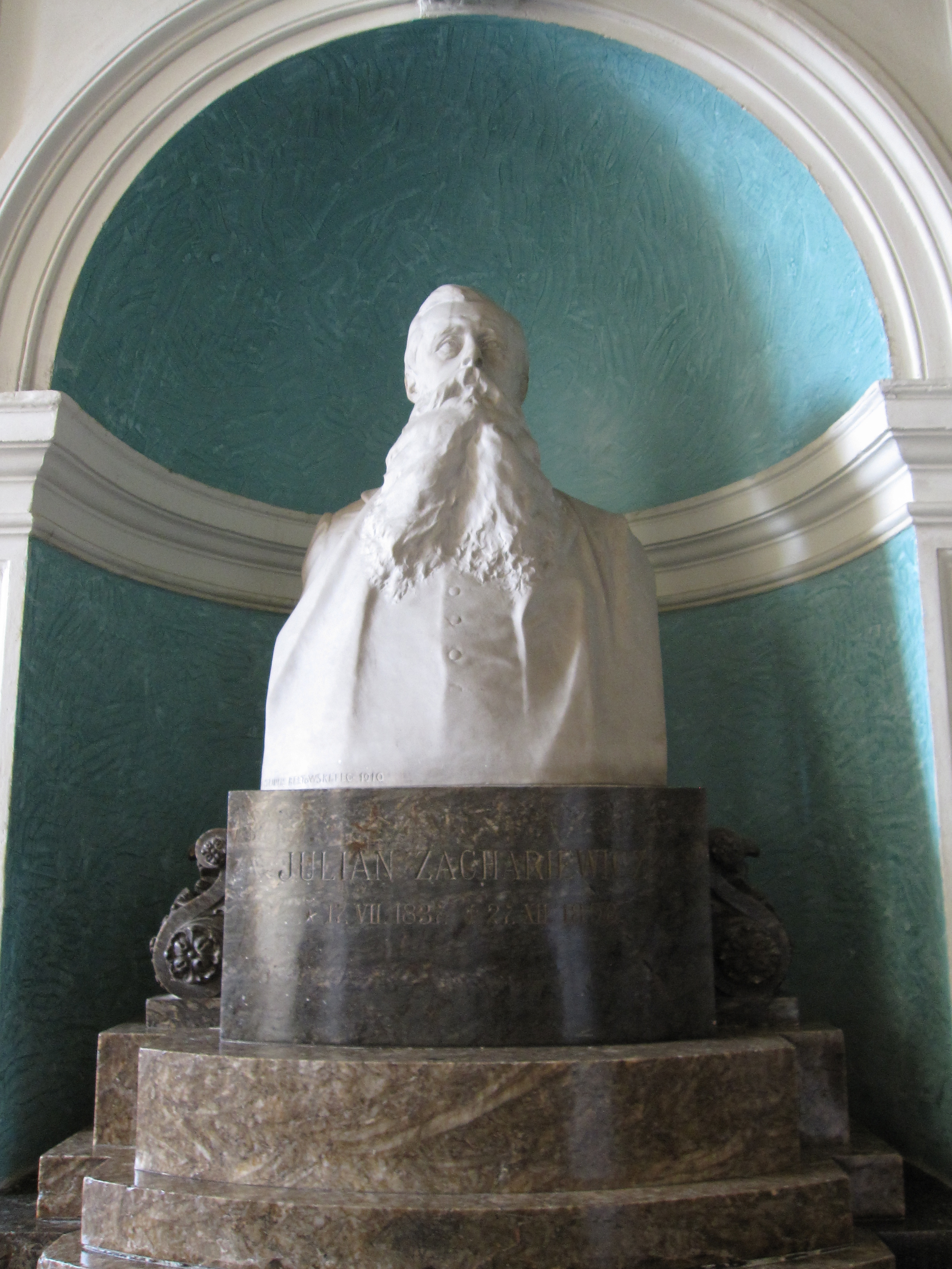 Marble bust of Julian Zachariewicz, made during his lifetime. Located in the foyer of Lviv Polytechnic.